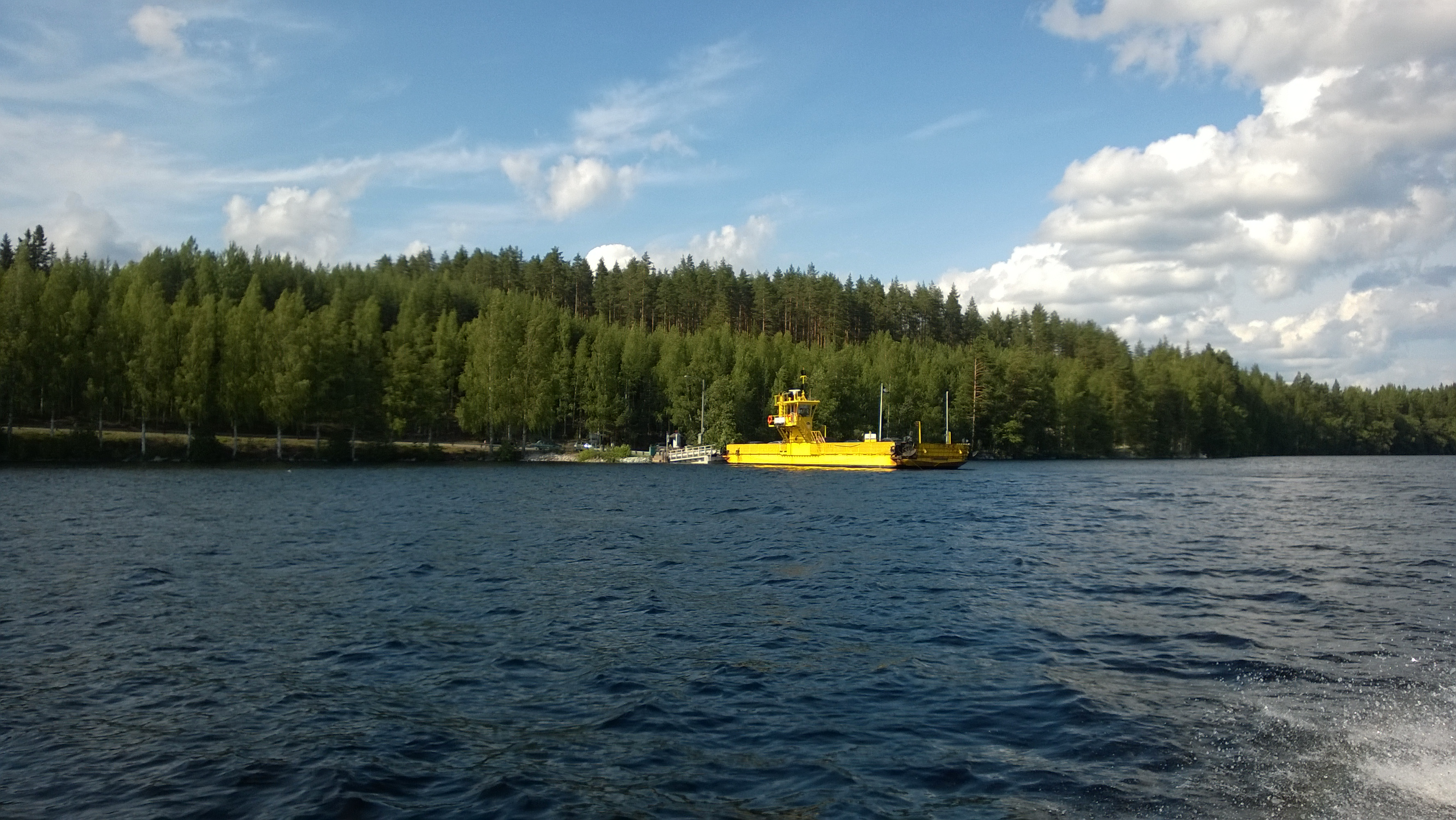 The car ferry at Hanhivirta, Enokoski.